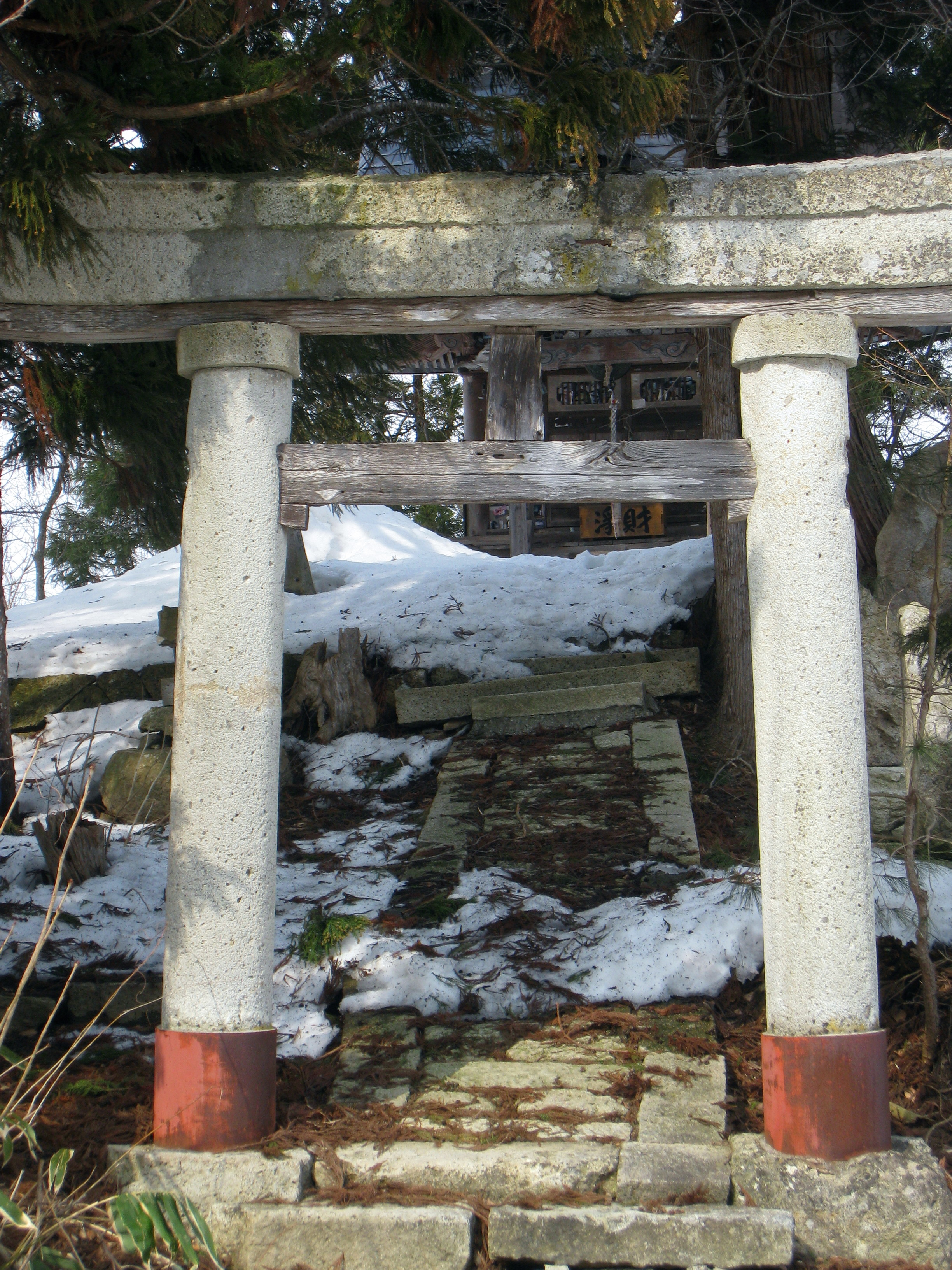 Neko no Miya shrine in Takahata Town, Yamagata Prefecture, Japan